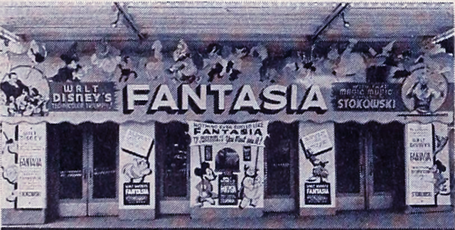 The front of the Parkway Theater in Madison, Wisconsin in 1942 promoting the first general release of Fantasia (1940).